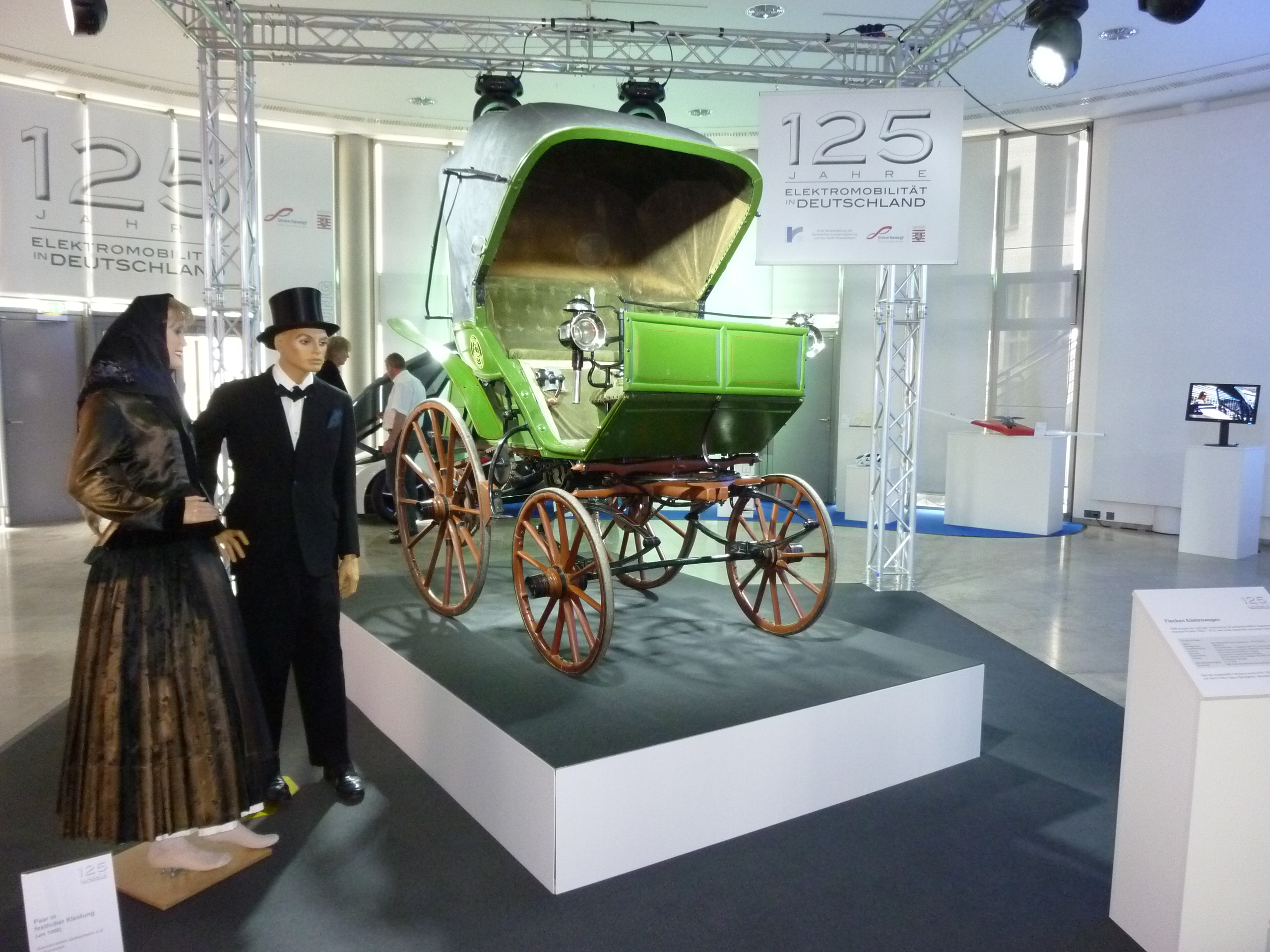 1888 Flocken electric car Rüsselsheim